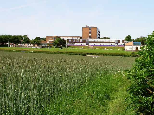 West Nottinghamshire College. Colloquially known as "Derby Road Tech.", more recently (2011 to 2013) rebranded as Vision West Notts then Vision West Nottinghamshire College. Situated at the very-edge of Mansfield adjacent to farmland and seen here from a footpath through a field of wheat with Derby Road running alongside at the rear of the building.